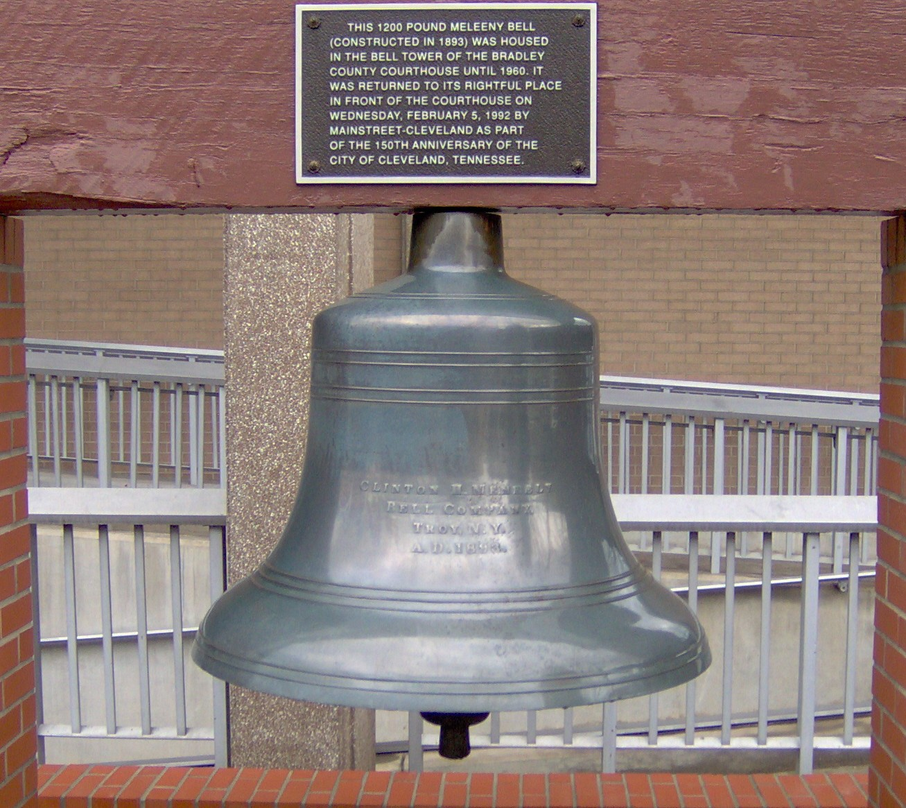 The 1,200-pound Meleeny bell that adorned the former Bradley County Courthouse in Cleveland, Tennessee, located in the Southeastern United States. The bell is now situated in front of the present courthouse. The plaque above the bell reads: THIS 1200 POUND MELEENY BELL (CONSTRUCTED IN 1893) WAS HOUSED IN THE BELL TOWER OF THE BRADLEY COUNTY COURTHOUSE UNITL 1960. IT WAS RETURNED TO ITS RIGHTFUL PLACE IN FRONT OF THE COURTHOUSE ON WEDNESDAY, FEBRUARY 5, 1992 BY MAINSTREET-CLEVELAND AS PART OF THE 150TH ANNIVERSARY OF THE CITY OF CLEVELAND, TENNESSEE.